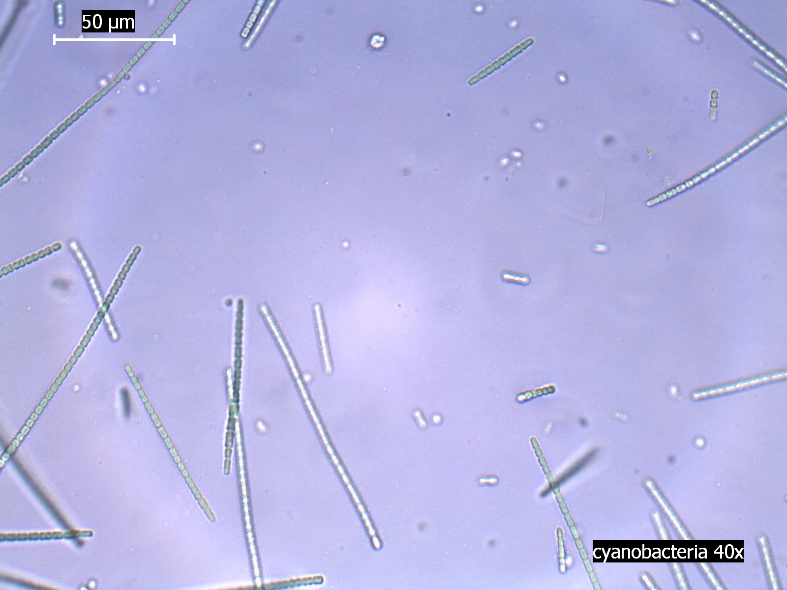 Cyanobacteria Under Light Microscope 40x Mag 2